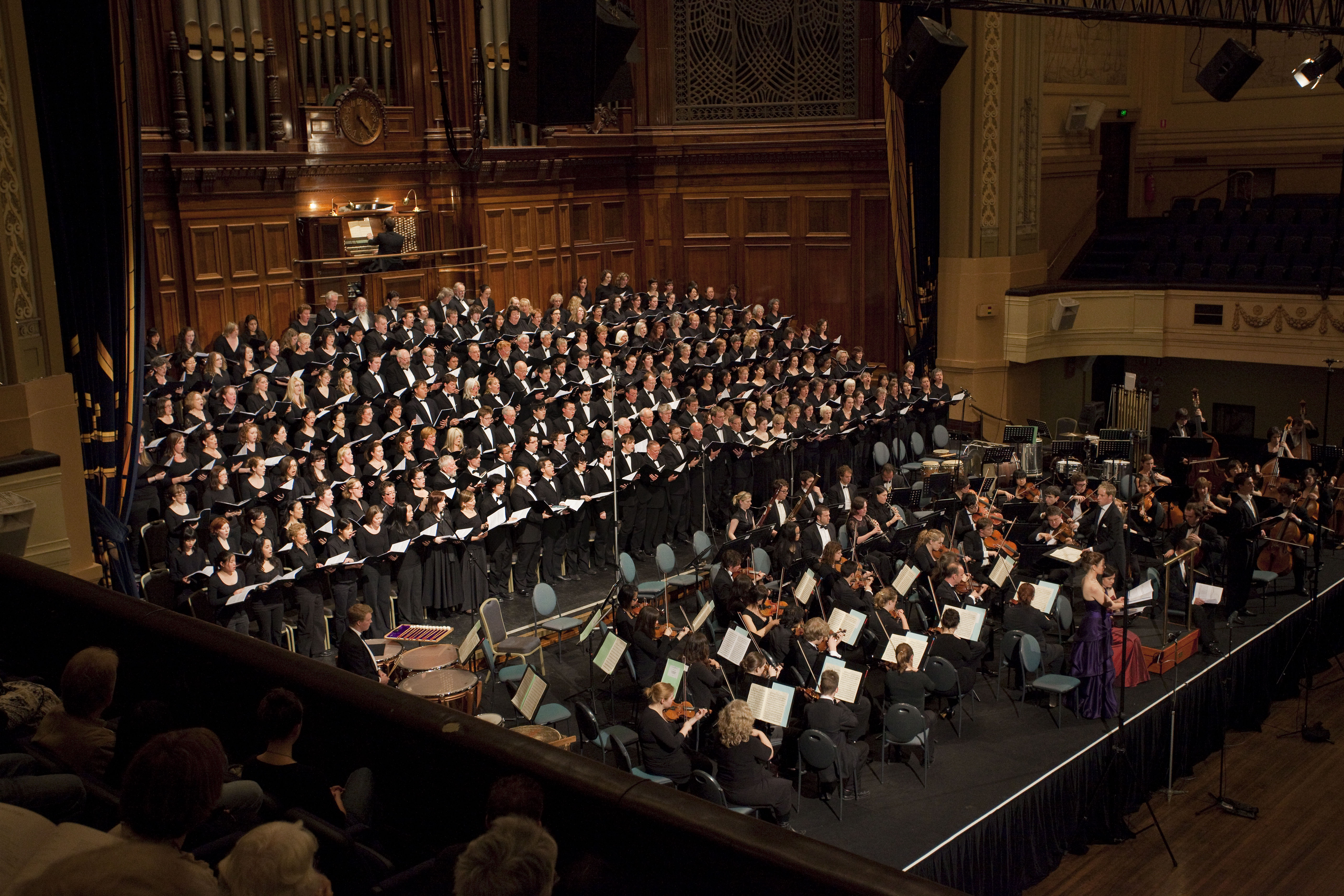 RMP/MUCS/ACU at Melbourne Town Hall